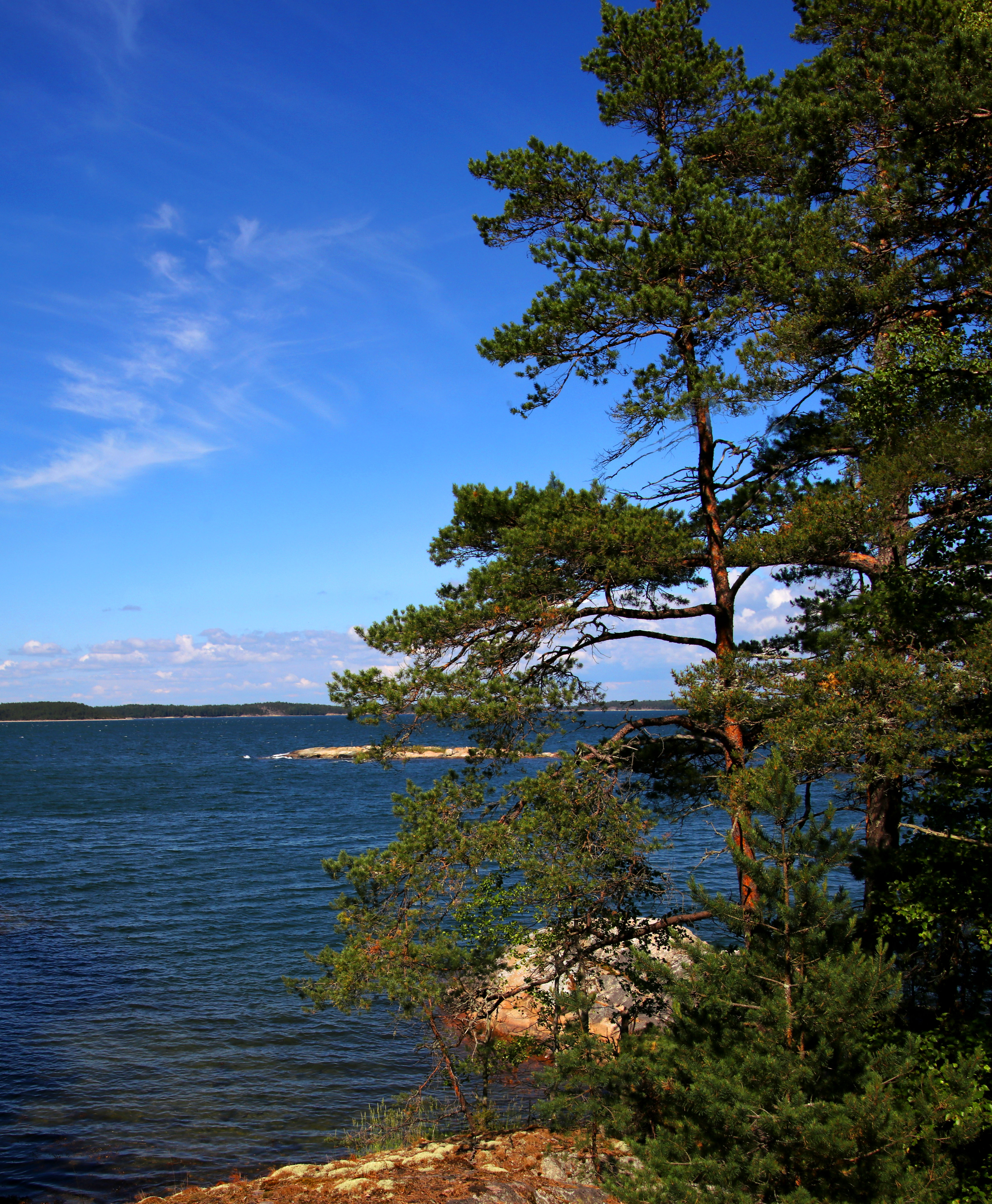 Turku. In the archipelago.